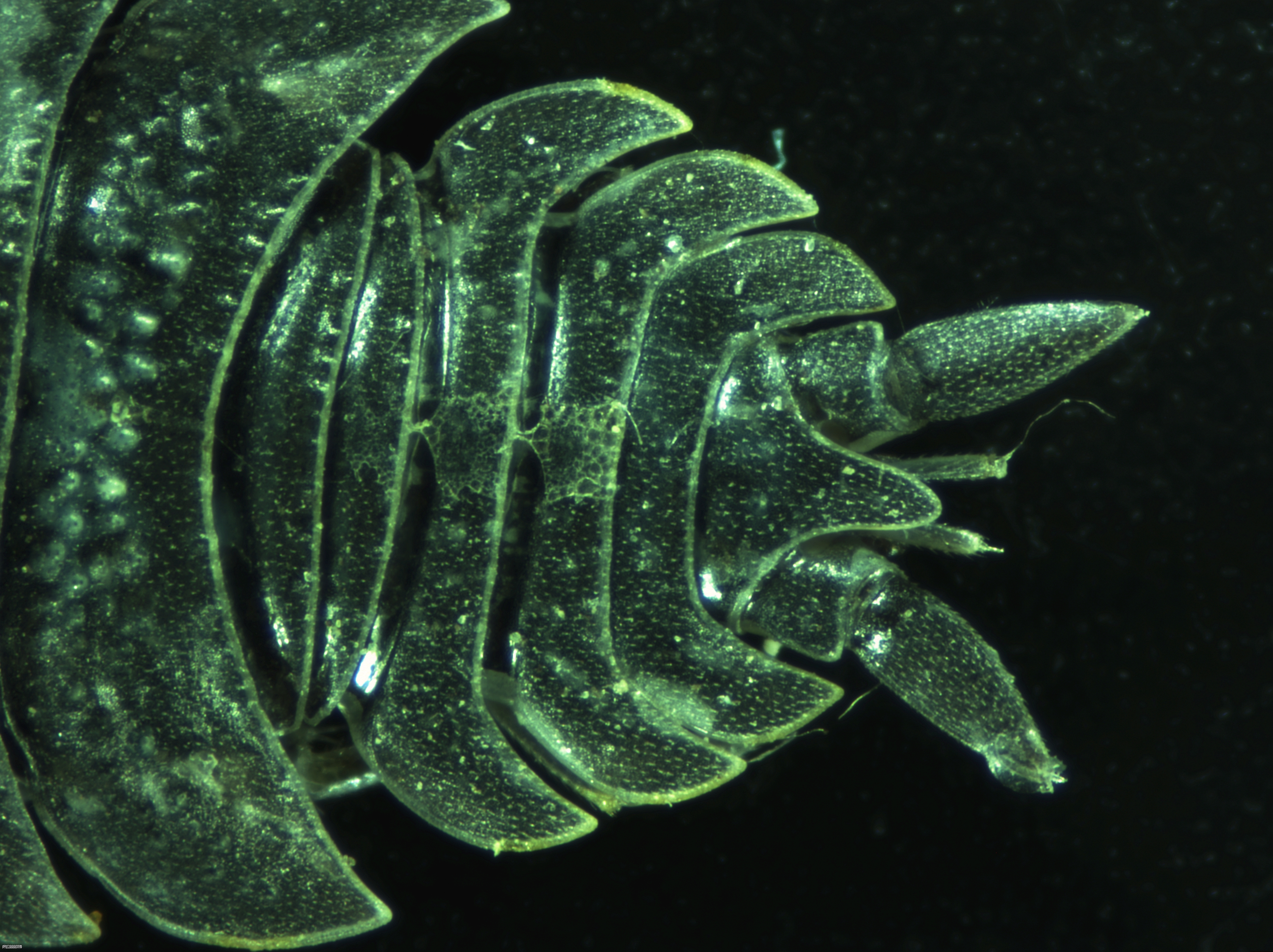 rough woodlouse (Porcellio scaber); abdomen dorsal comprising telson and uropods. image width about 6 mm (= 0,24 inch)